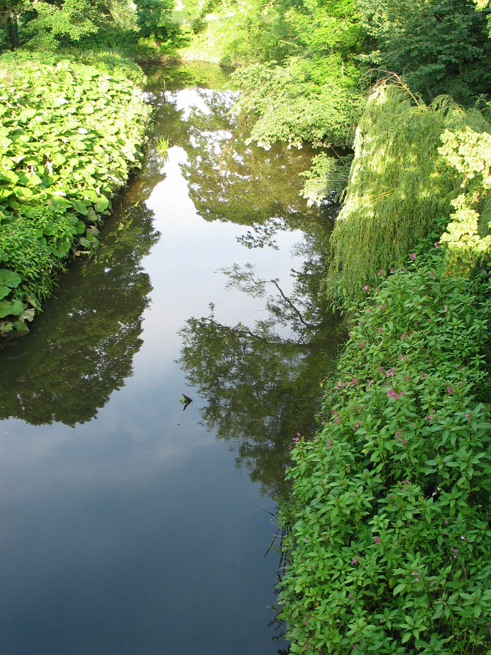 River Browney at Sunderland Bridge, near Durham City, County Durham taken by Peter Hughes on Saturday 30 June 2007